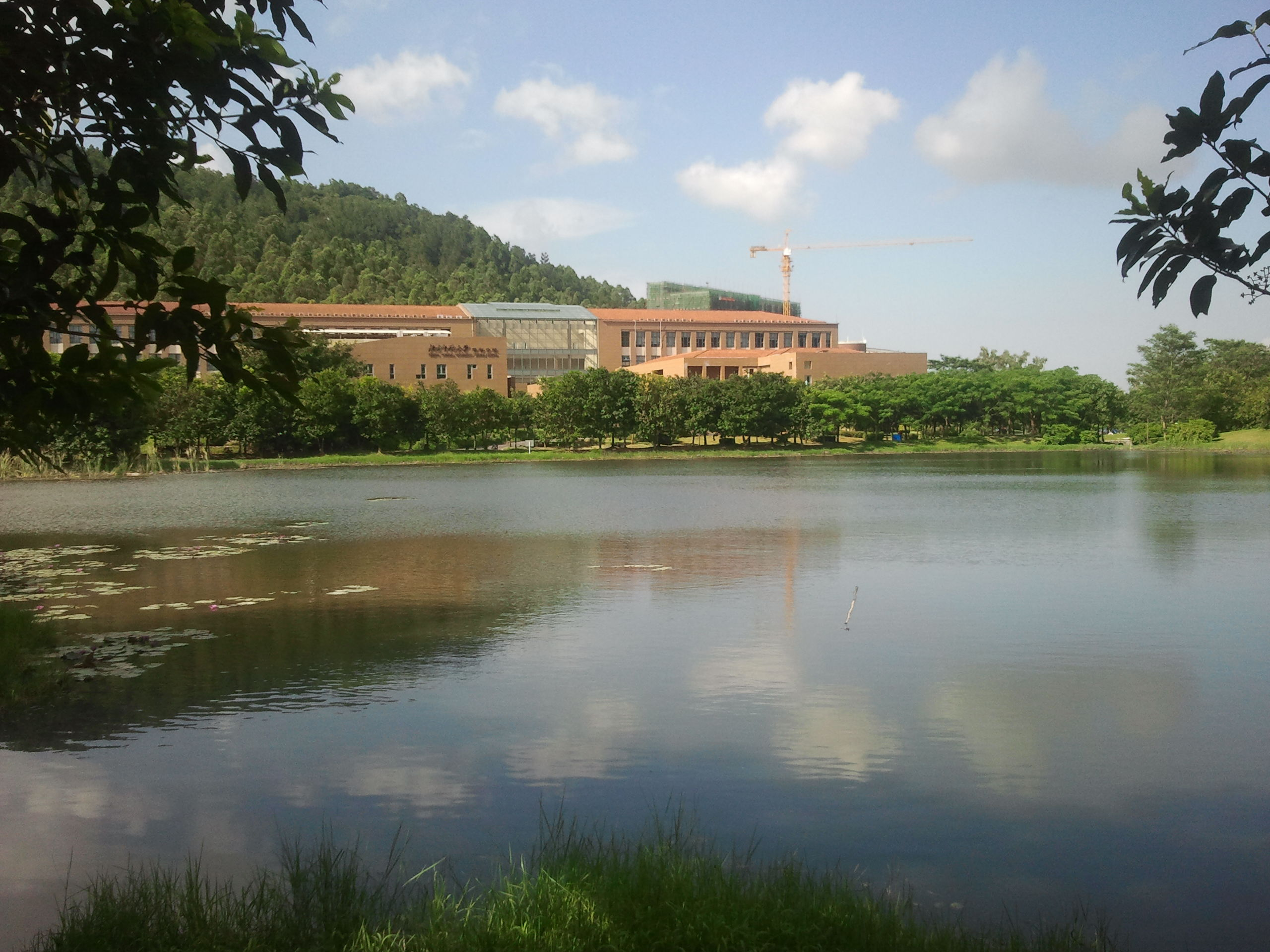 The biggest teaching center in BNUZ